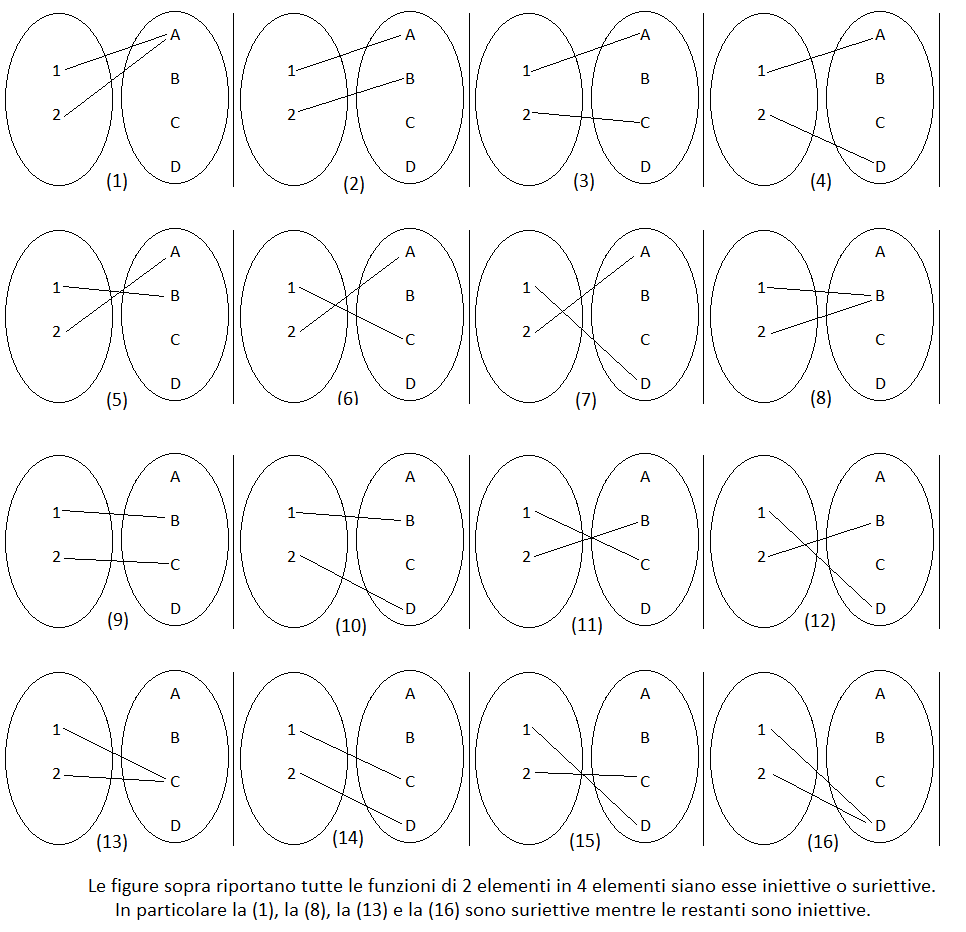 Functions of two elements to four elements